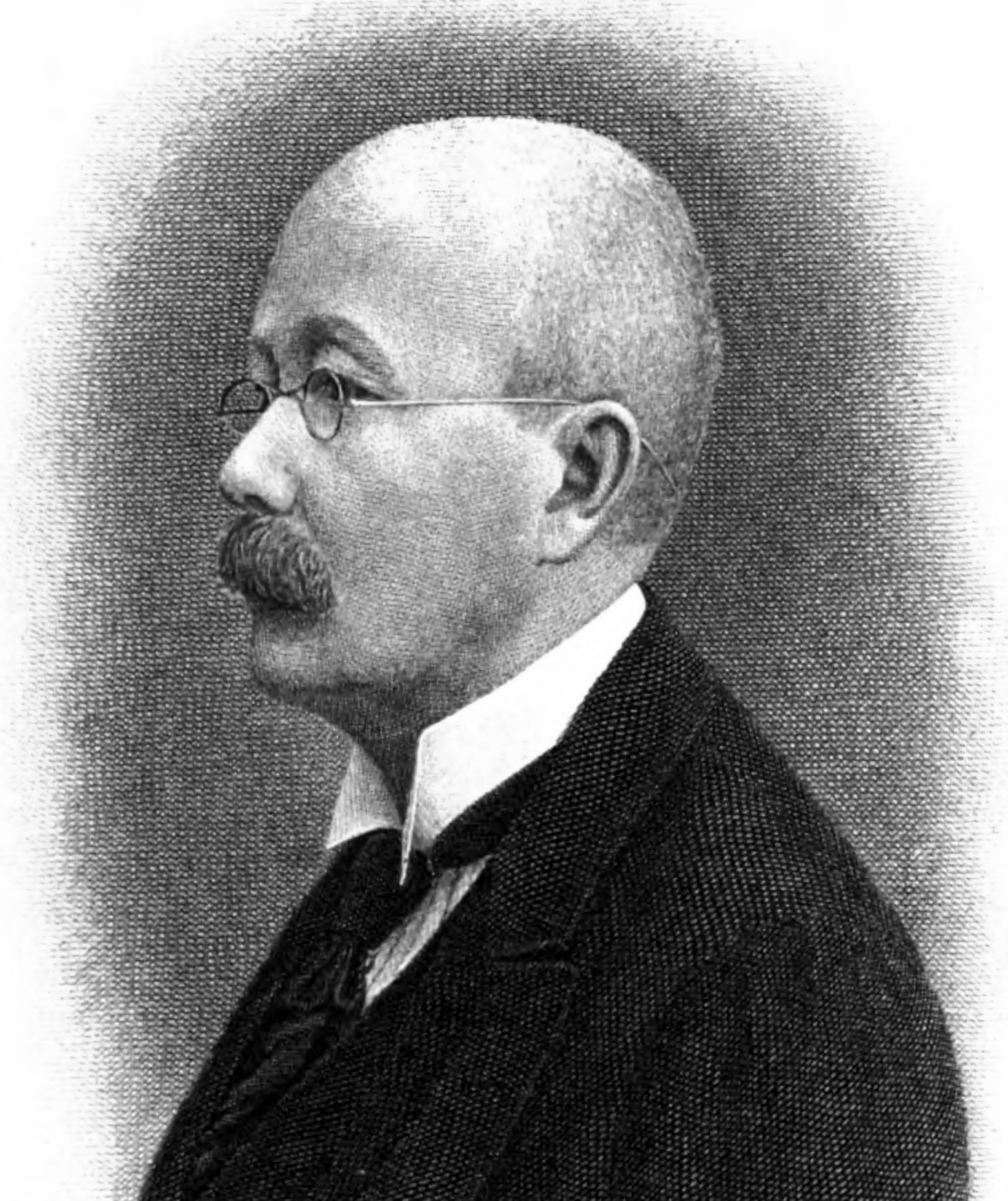 Russian novelist Peter Dmitryevich Boborykin